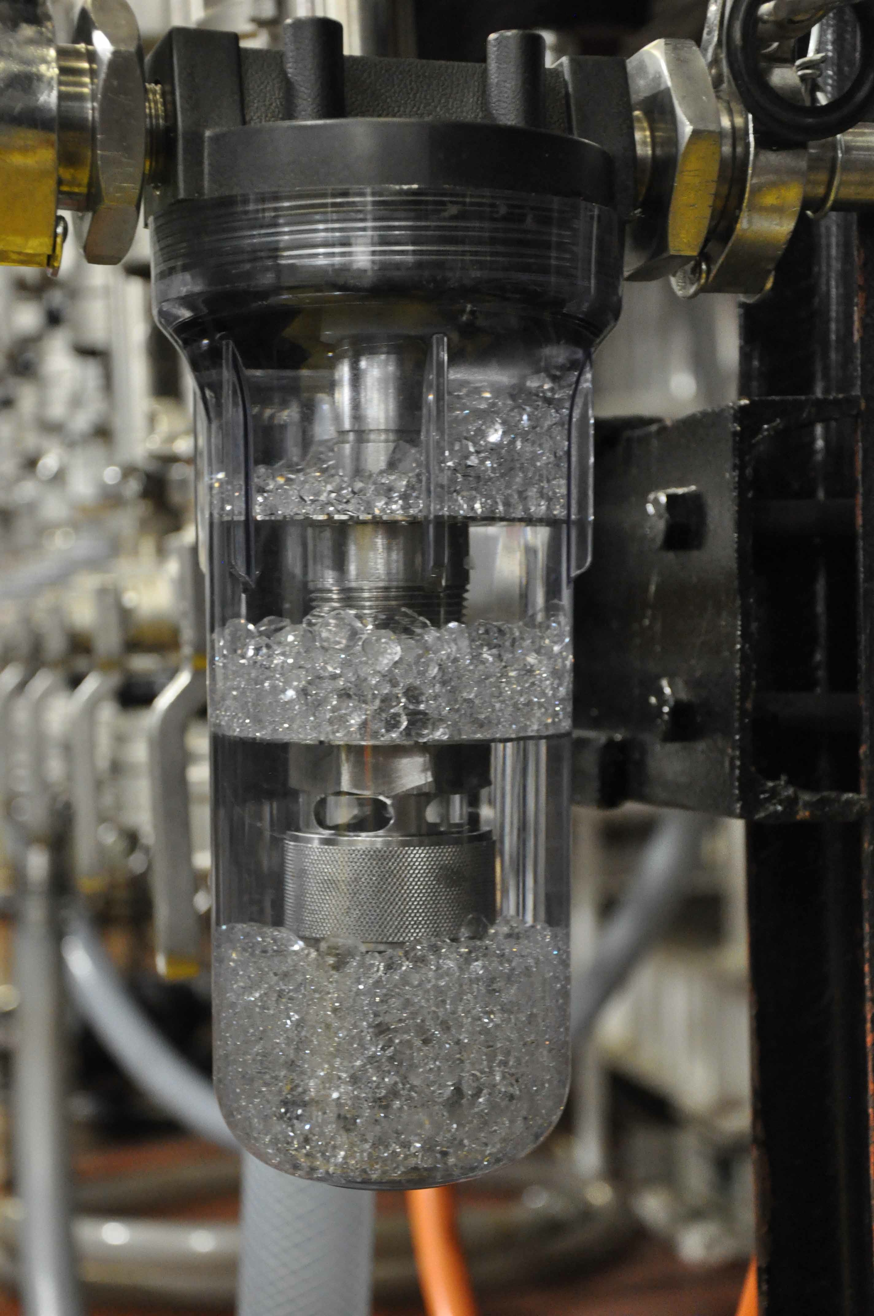 Herkimer diamond are involved in the distilling process.